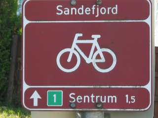 Signpost of North Sea Cycle Route/ National Cycle Route 1 in Sandefjprd, Norway